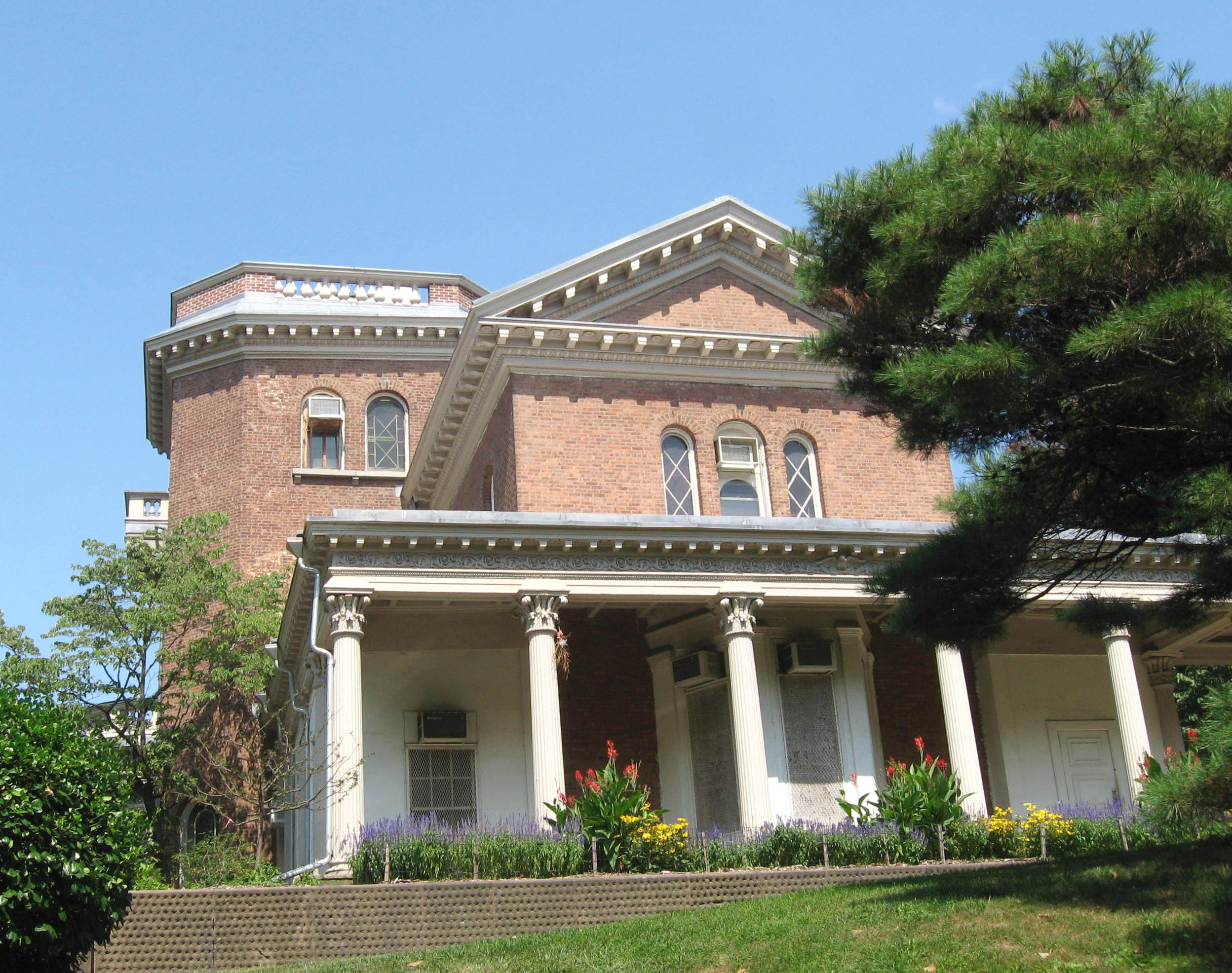 Looking up and north at Litchfield Villa on a sunny midday. "On my way to a Wikipedia meeting." See File:Corn-capital-litchfield.jpg for a detail.